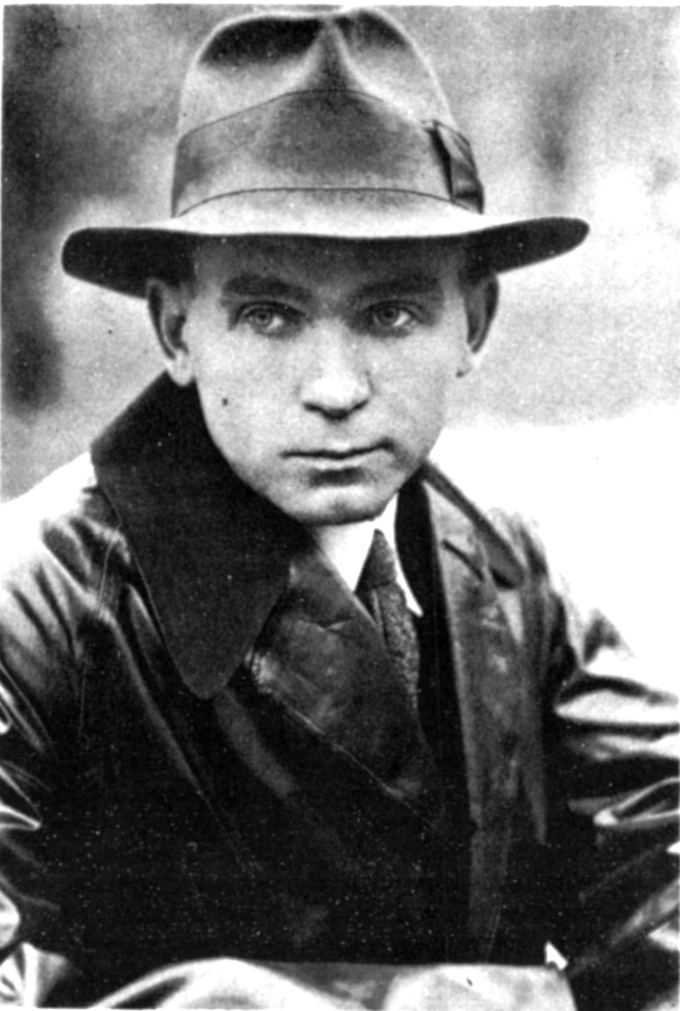 Samchuk Ulas Oleksiyovych